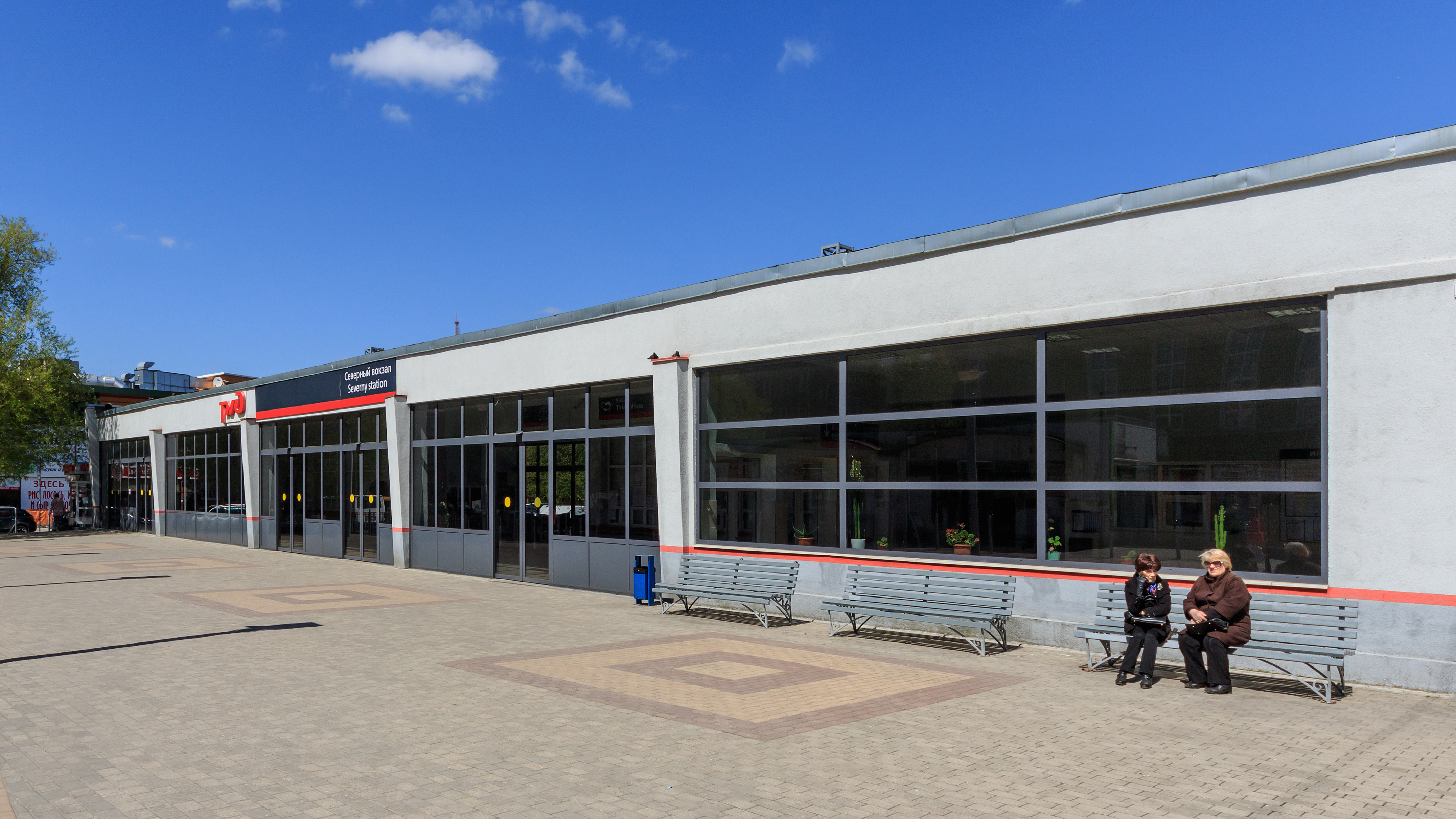 North railway station in Kaliningrad formerly Königsberg, Kaliningrad Oblast (Russia).